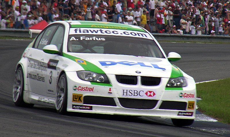 World Touring Car Championship 2007 Curitiba#3 Augusto Farfus Jr.